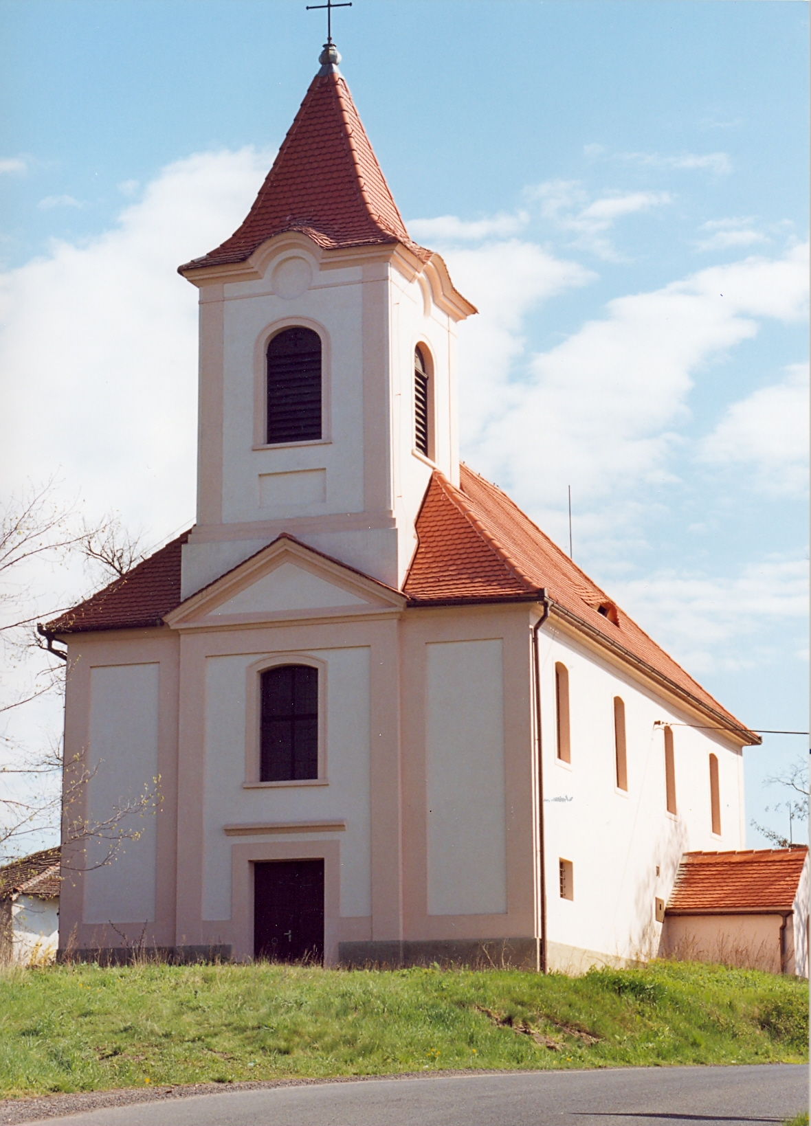 Church of Saints Simon and Jude in Hradiště